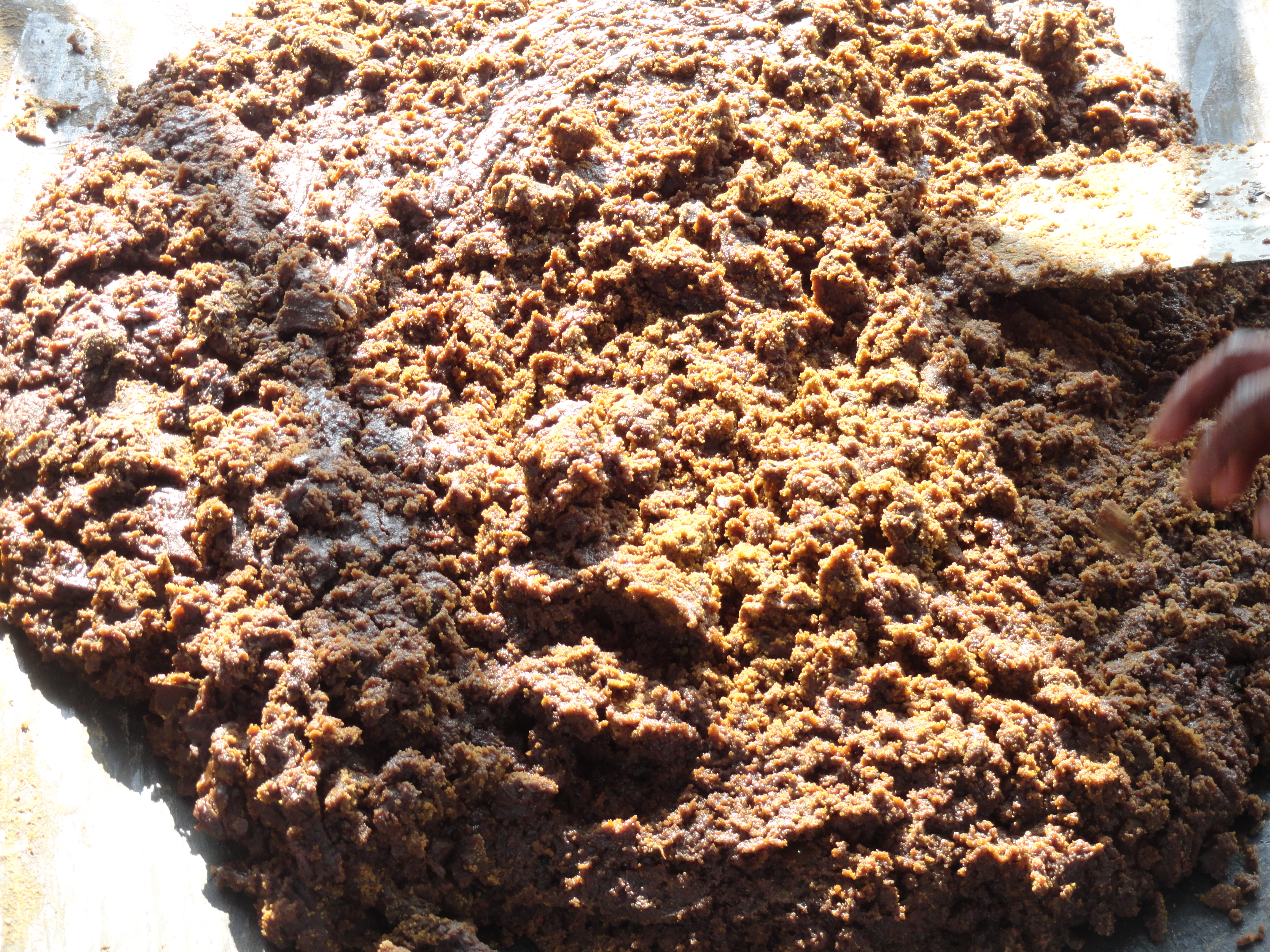 This is a heap of joggery made from the sugarcane juice after heating to a certain degree.